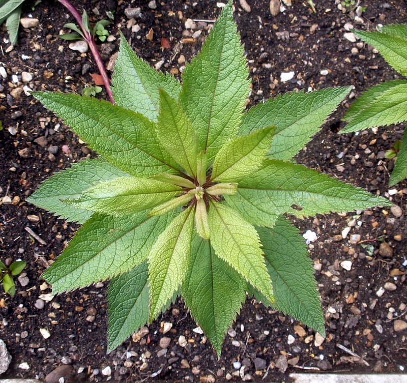 Note how different layers of leaves avoid overlap.